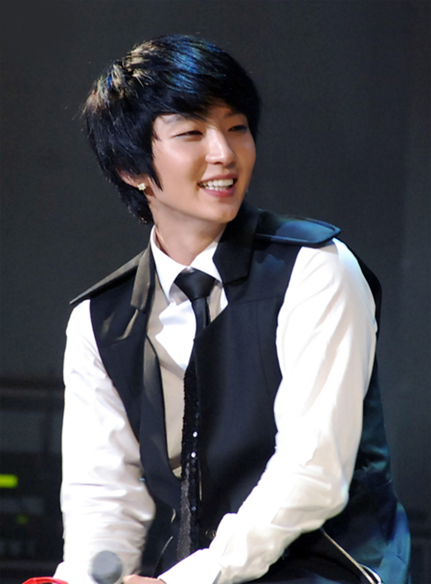 Yonsei University, South Korea, Lee Jun-ki's 29th birthday